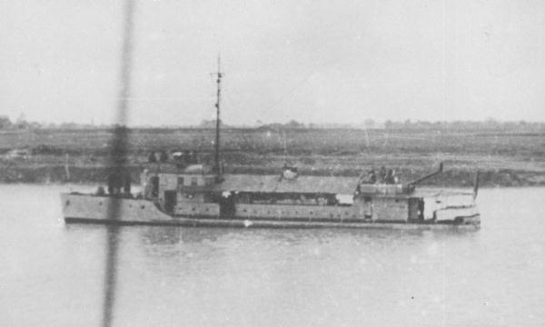 Japanese gunboat "Kotaka" at Yangtze R.